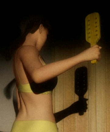 Never go to bed angry.